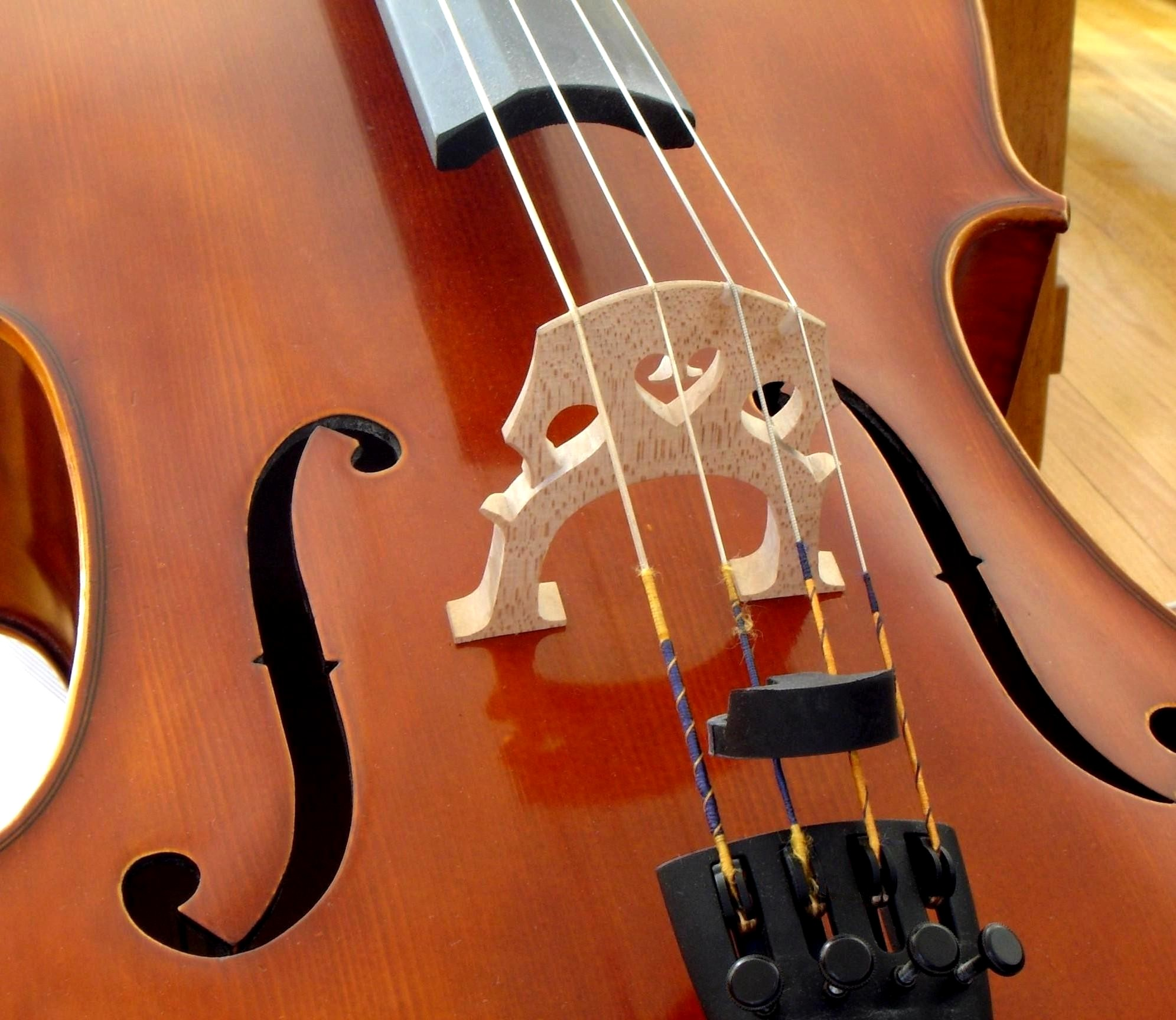 A close-up of the bridge area on a cello